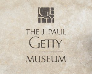 THe J Paul Getty Museum Logo taken from a carving at the museum. Photo taken on November 24, 2006 by Brian Davis